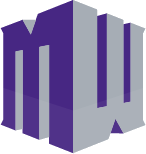 Mountain West Conference logo